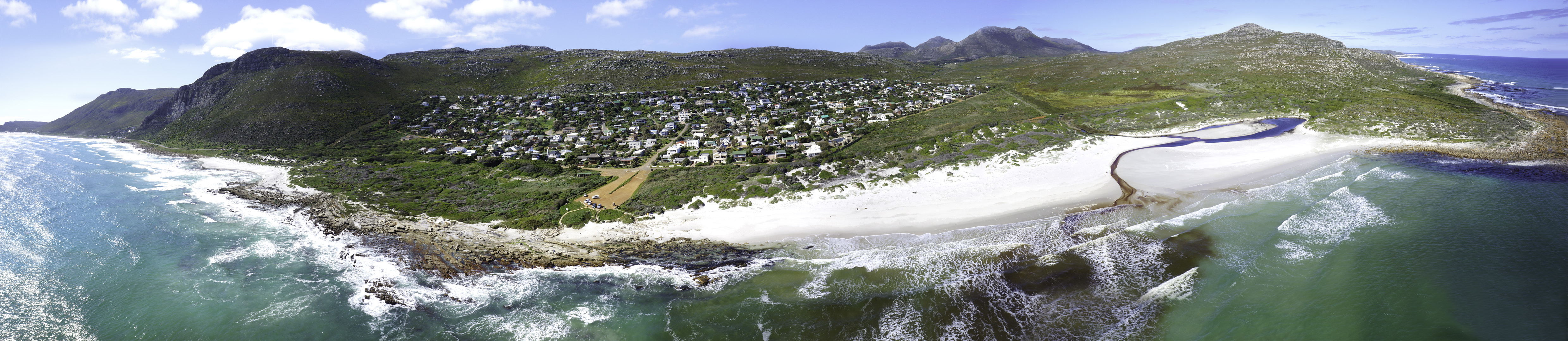 Scarborough, lies just beyond Kommetjie, it is one of the few suburbs of Cape Town that remains far from the madding crowds, despite its proximity to the city. Scarborough is a conservation village and essentially with random scattered of houses and beach homes that lie embedded in the steep mountains of Slangkop and Red Hill, overlooking the majestic Atlantic waves. It is a nature-lover’s haven!